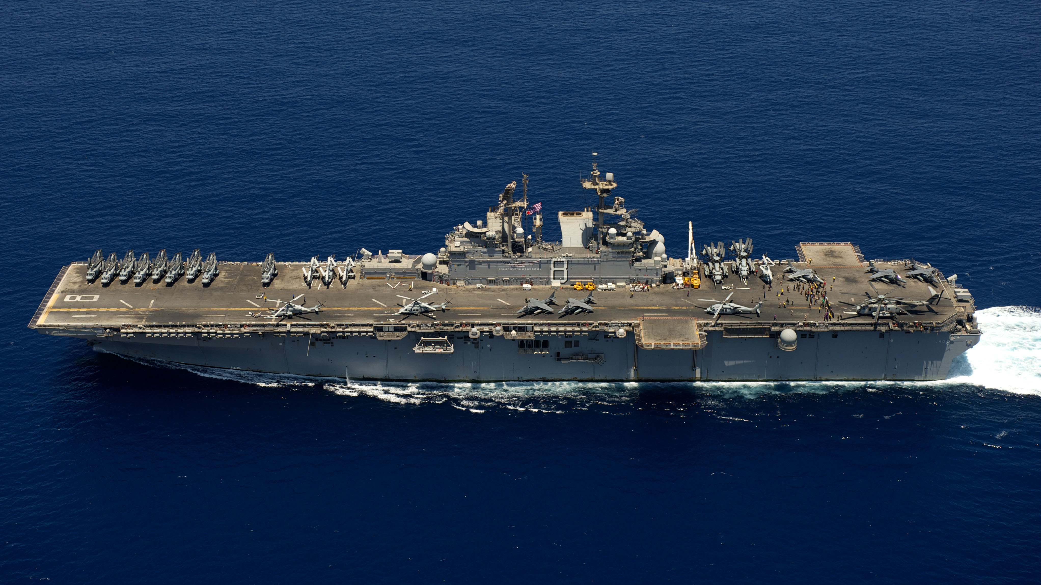 INDIAN OCEAN (May 8, 2012) The amphibious assault ship USS Makin Island (LHD 8) conducts flight deck operations in the Indian Ocean. The Makin Island Amphibious Ready Group is deployed to the U.S. 7th Fleet area of operations. (U.S. Navy photo by Chief Mass Communication Specialist John Lill/Released) 120508-N-KD852-679 Join the conversation navylive.dodlive.mil